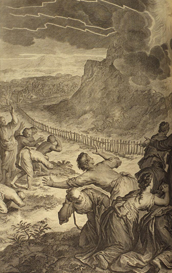 The promulgation of the Law in Mount Sinai, as in Exodus 20:1,2,18-21: "And God spake all these words, saying, I am the Lord thy God, which have brought thee out of the land of Egypt, out of the house of bondage... ...And all the people saw the thunderings, and the lightnings, and the noise of the trumpet, and the mountain smoking: and when the people saw it, they removed, and stood afar off. And they said unto Moses, Speak thou with us, and we will hear: but let not God speak with us, lest we die. And Moses said unto the people, Fear not: for God is come to prove you, and that his fear may be before your faces, that ye sin not. And the people stood afar off, and Moses drew near unto the thick darkness where God was."; illustration from the 1728 Figures de la Bible; illustrated by Gerard Hoet (1648–1733) and others, and published by P. de Hondt in The Hague; image courtesy Bizzell Bible Collection, University of Oklahoma Libraries